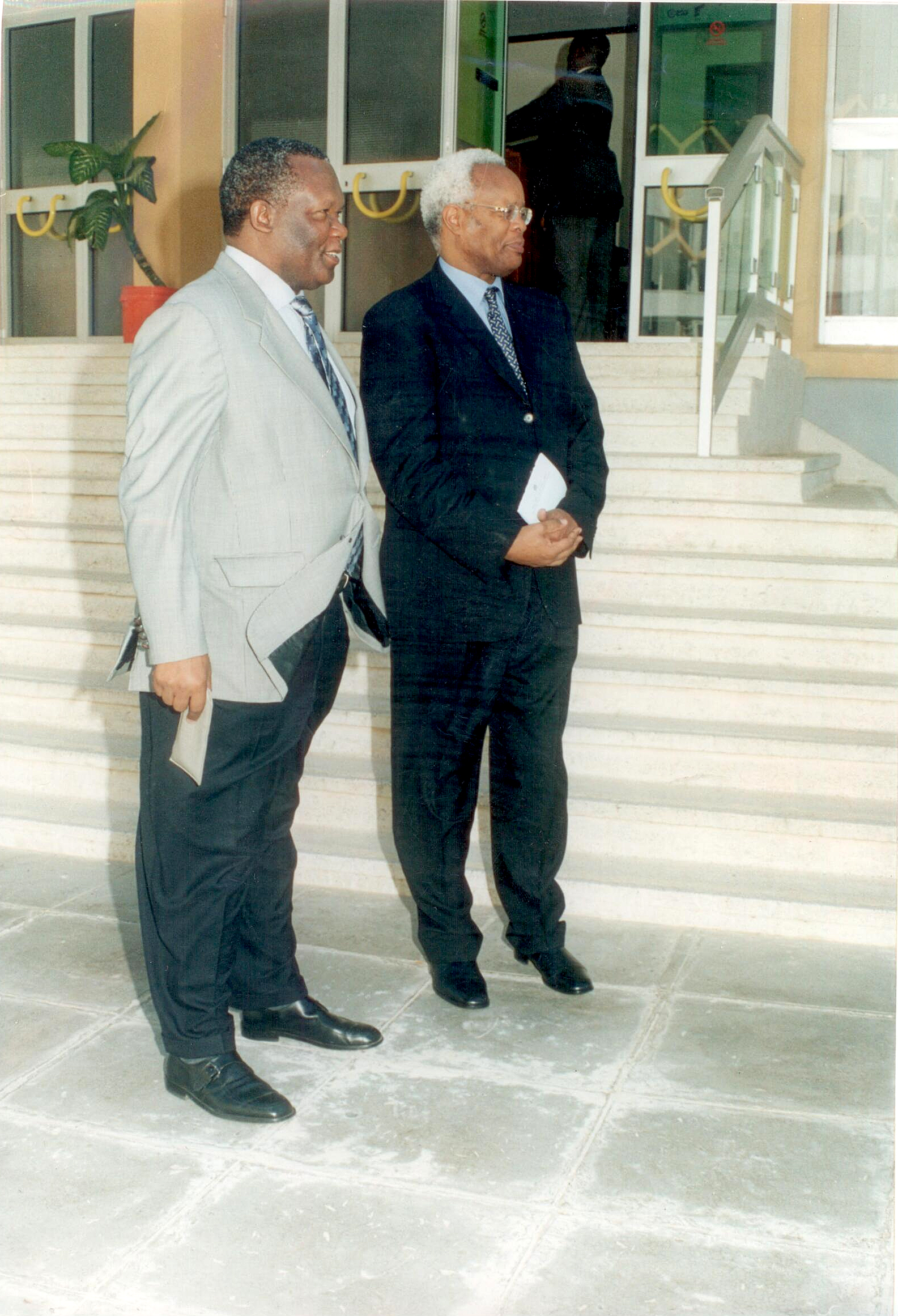 Felix mrema was with Edward Lowasa